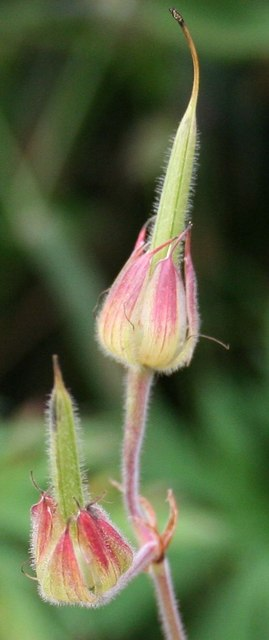 Meadow Cranesbill (Geranium pratense) It's easy to see from the seed pods how this plant got its name.